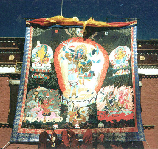 The Mahakala Applique (30 ft x 30 ft, 10m x 10 m), Tsurpu Monestary, Tibet